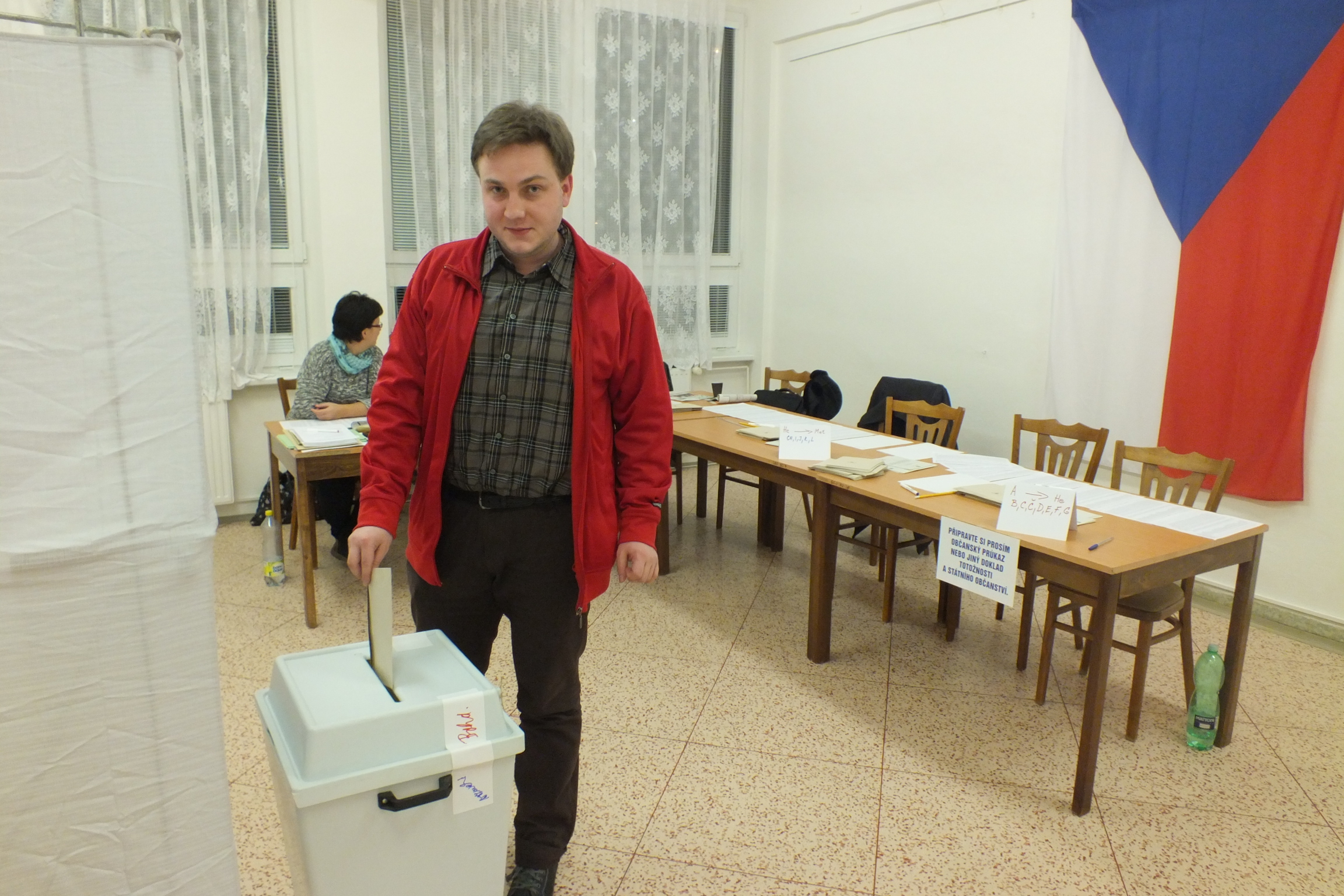 Referendum in Olomouc, the Czech Republic, on the ban of gambling in the city.